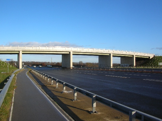 Flyover at Bilbrough Top. Recently built in order to sort access to and from Colton services.